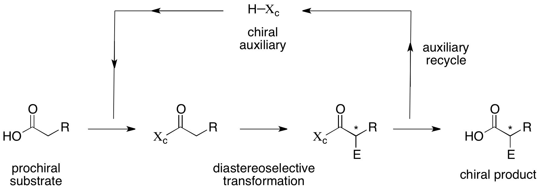 Chemdraw